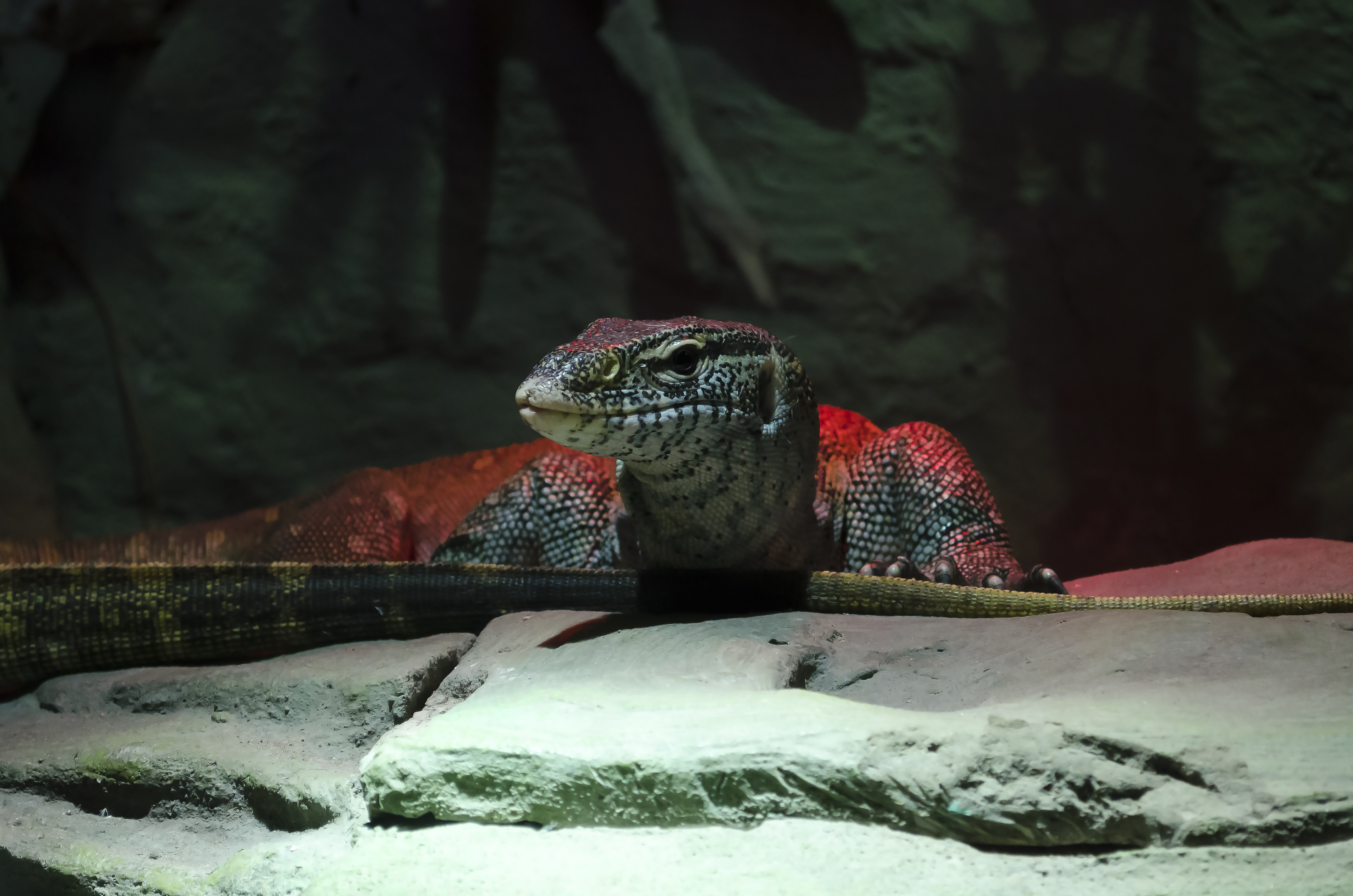 Bengal monitor (Varanus bengalensis) - is a monitor lizard found widely distributed over the Indian Subcontinent, as well as parts of Southeast and West Asia. This particular specimen is maintaining in the Kyiv zoo. The red light comes from infrared lamps which are used in the zoo to warm animals during the cold period.